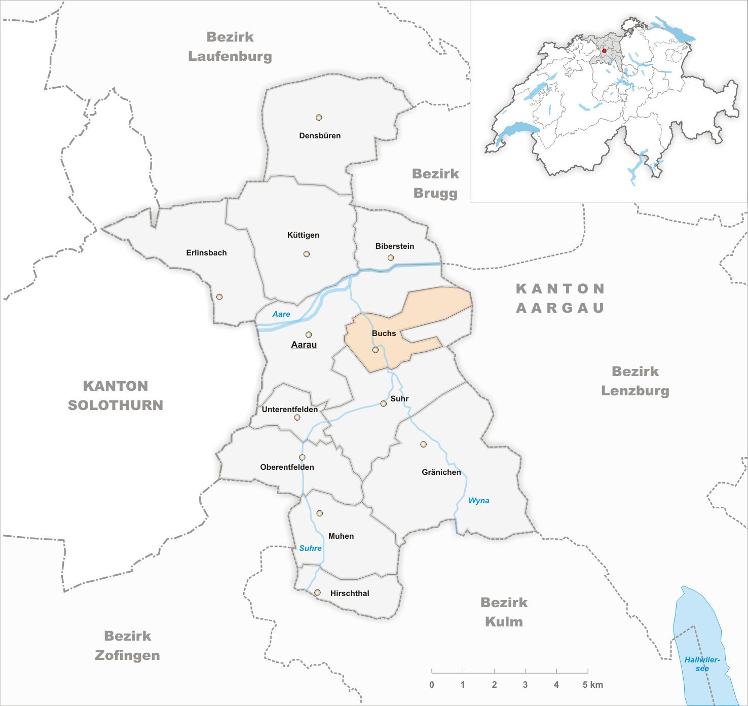 Municipality Buchs